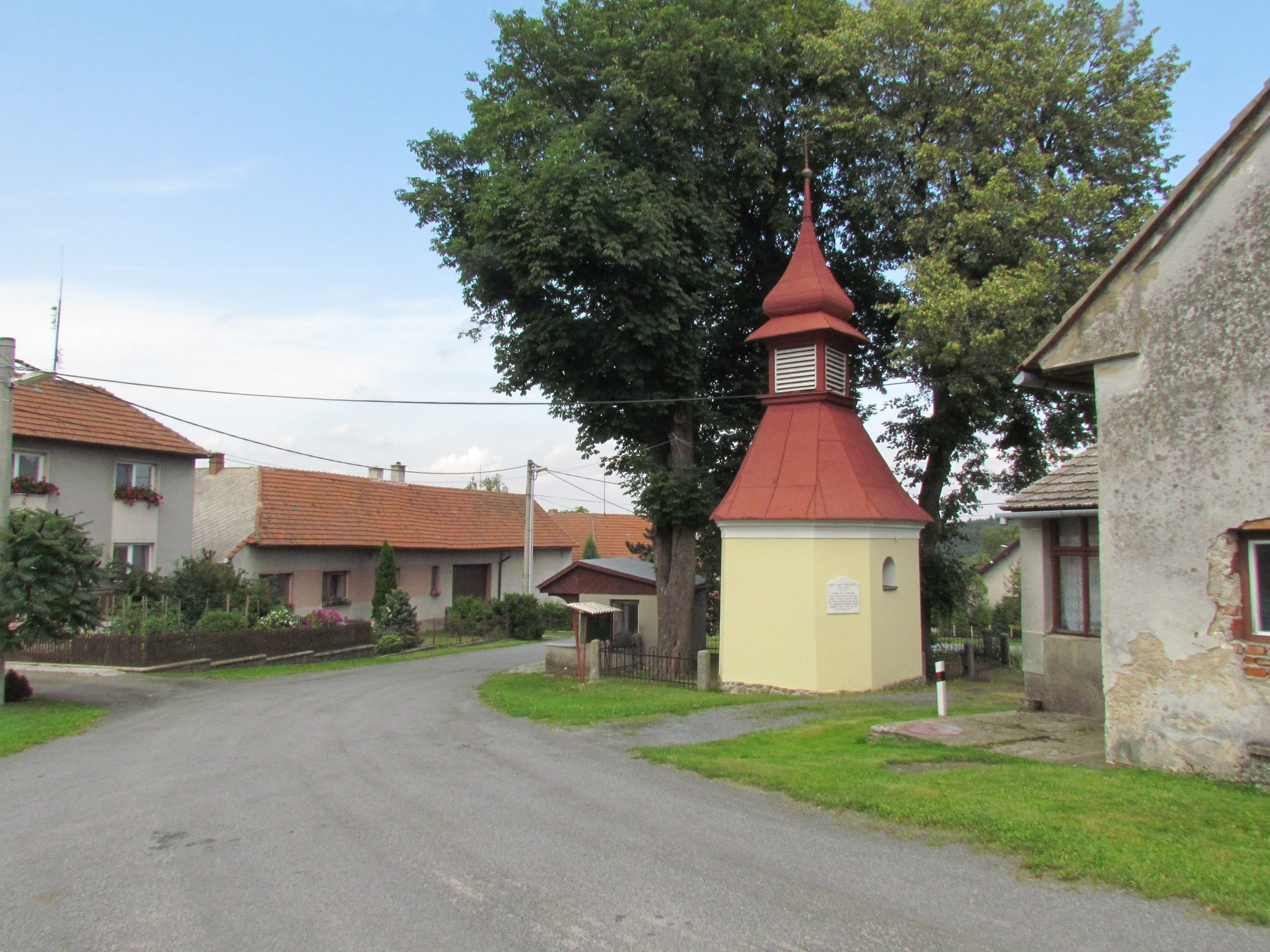 Center with chapel of Saint Mary in Nový Telečkov, Třebíč District.